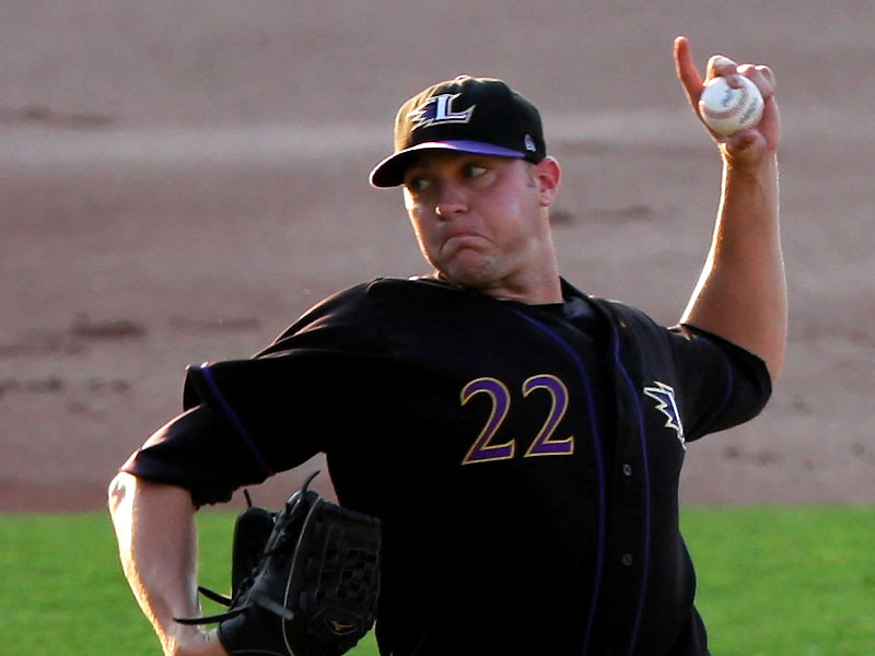 Matt Maloney pitching in Syracuse, NY